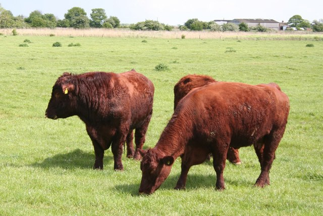 Red Bull Lincoln Red bull and some of his harem